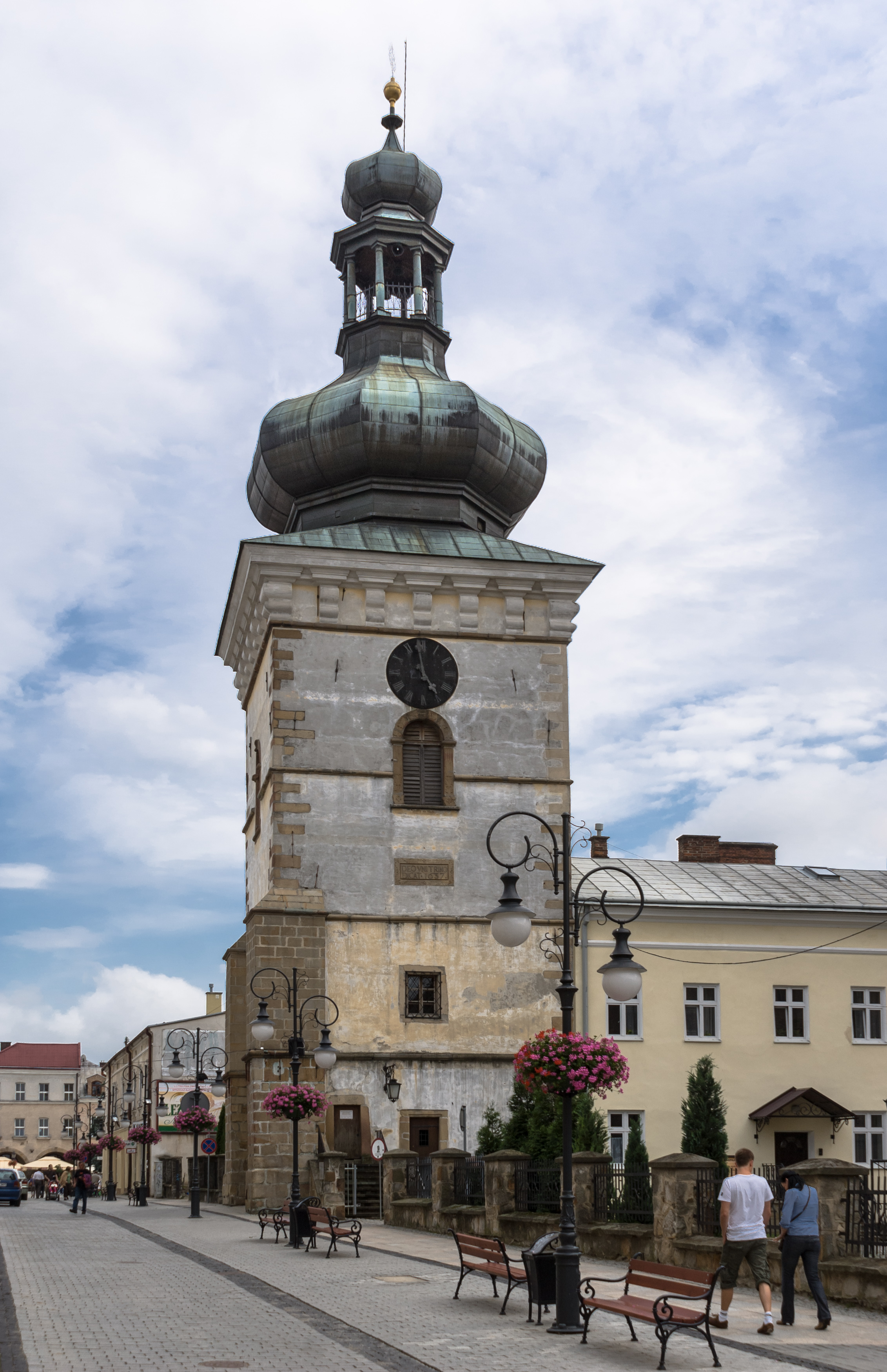 A bell tower of Holy Trinity church in Krosno, Poland.